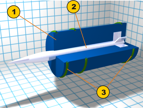 Sub calibre shell (SABOT)